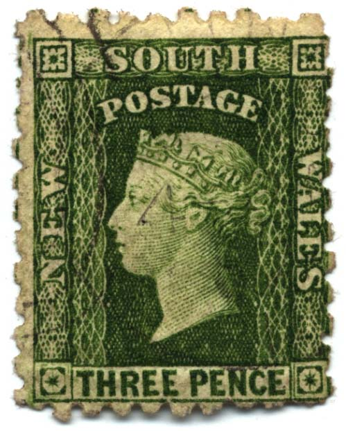 Scan of New South Wales 3-pence stamp of 1891